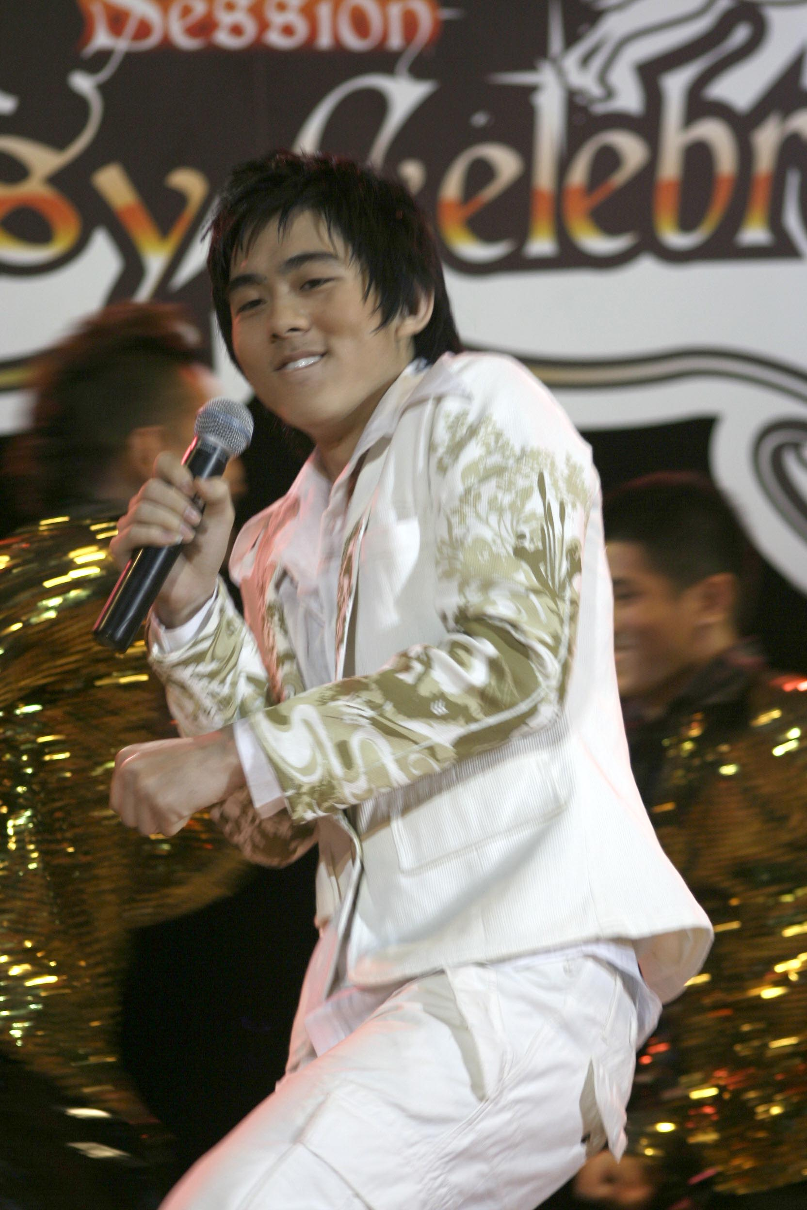 Aof AF2